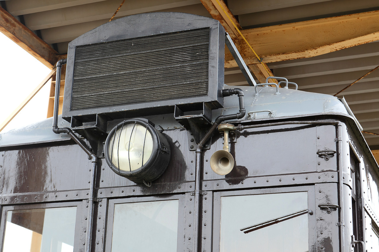 JNR Kihani 5000 Gasoline Railcar in Naebo Workshop.